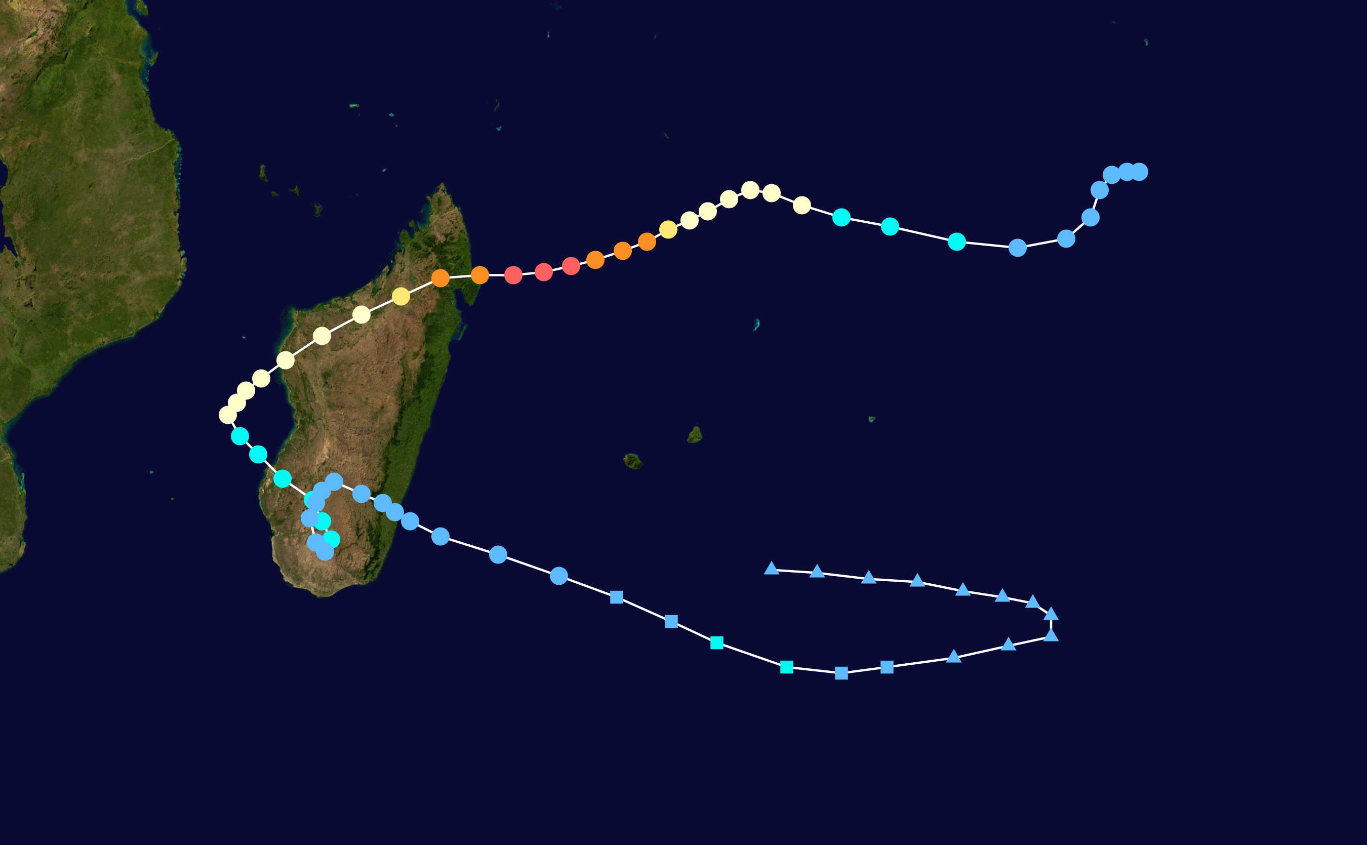 Cyclone Gafilo (2004) track. Uses the color scheme from the Saffir-Simpson Hurricane Scale.